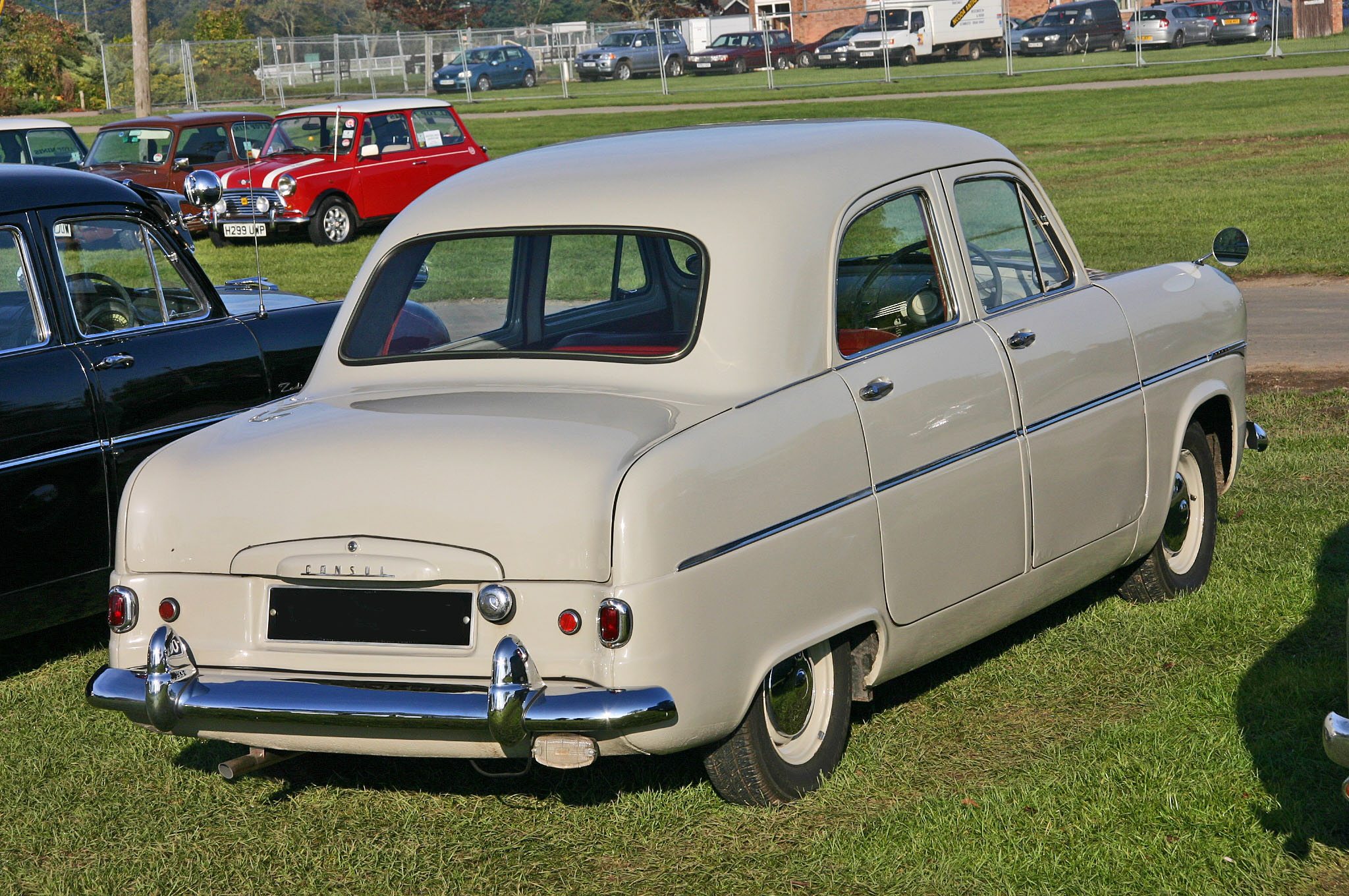 Ford Consul MkI (EOTA). Introduced in 1951, the Consul (and its later Zephyr siblings) was a radical car for British Ford. Having both a monocoque bodyshell and macpherson struts at the front. This is an early car